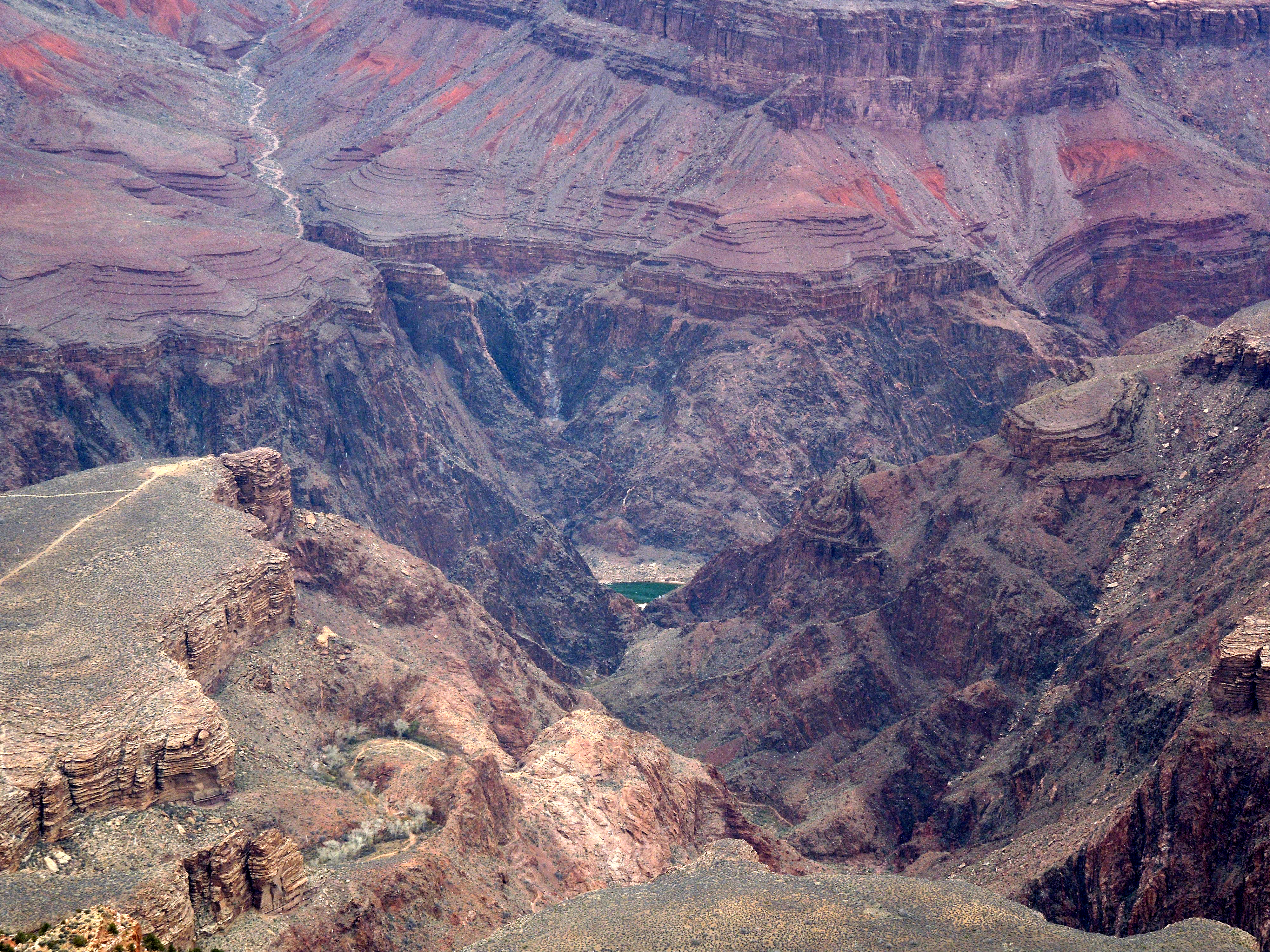 View of the lower slopes of the Grand Canyon at Plateau Point, Coconino County, Arizona, seen from the southern rim of the canyon.